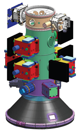 Playload stack of the STP-2 mission / Falcon Heavy flight 3